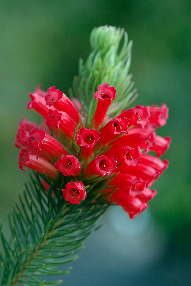 Erica sp., photographed at the UC Berkeley Botanical Garden. Species from South Africa.a)